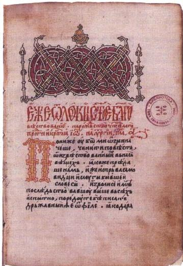 Four gospels book from Slepče Monastery, Macedonia,16th century